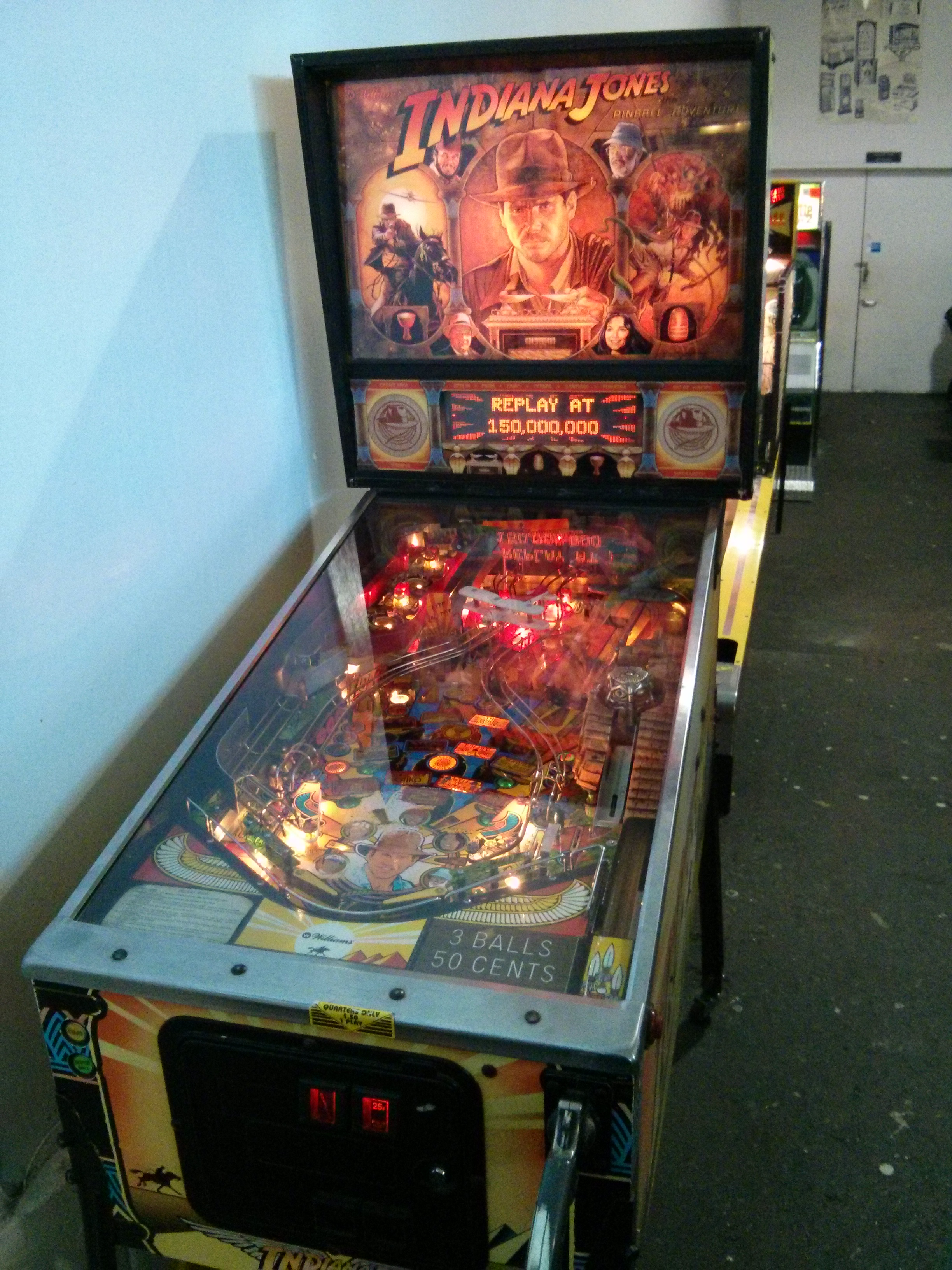 Musee Mecanique